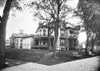 home of Harriet G. Walker and T. B. Walker on Hennepin Avenue, later Walker Art Center Temporary, poor quality image. Please replace if you have a better copy. Thank you in advance.